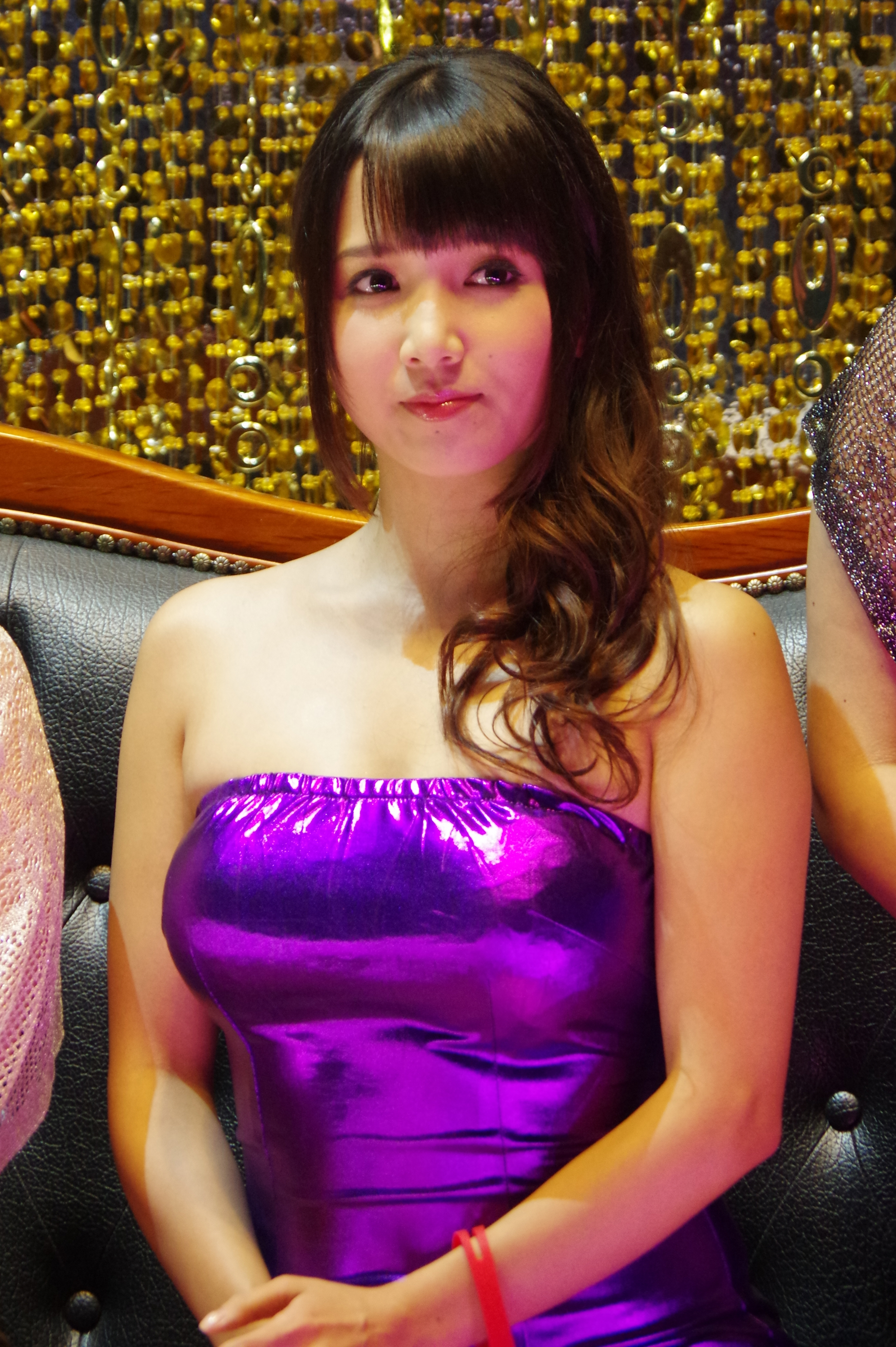 Ayaka Tomoda at Tokyo Game Show 2014